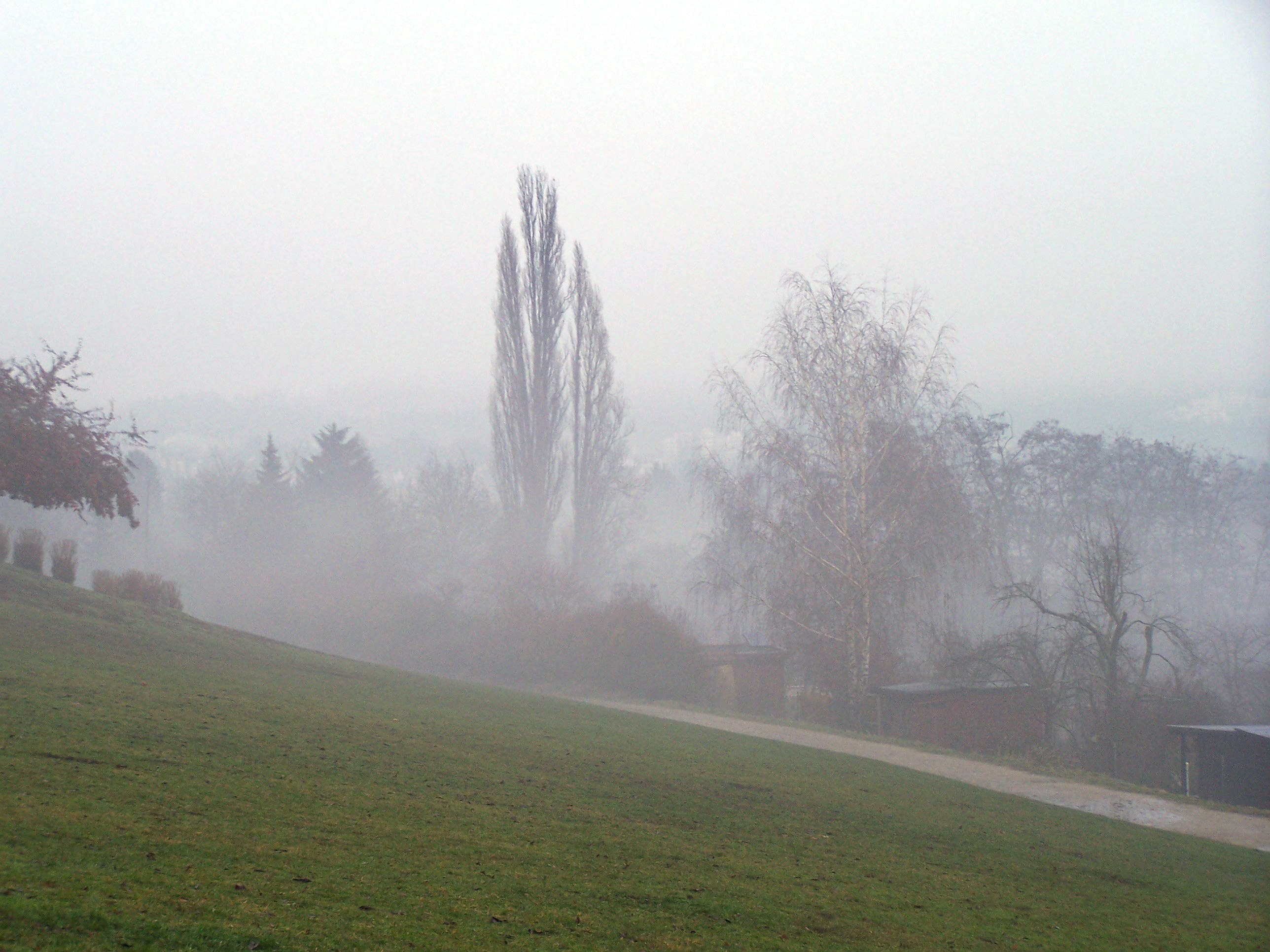 Bornheimer Hang in Frankfurt am Main-Bornheim, view to north, in December 2009